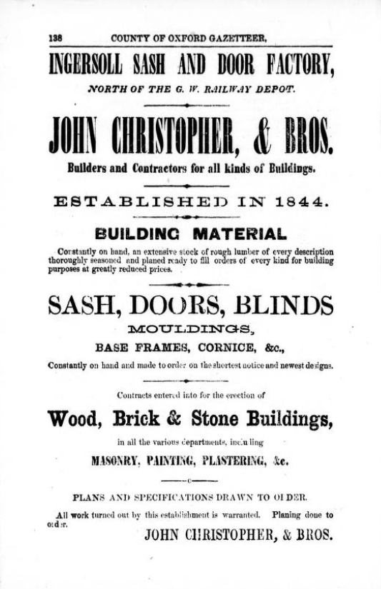 advertisement for Christopher Brothers, Ingersoll, Ontario